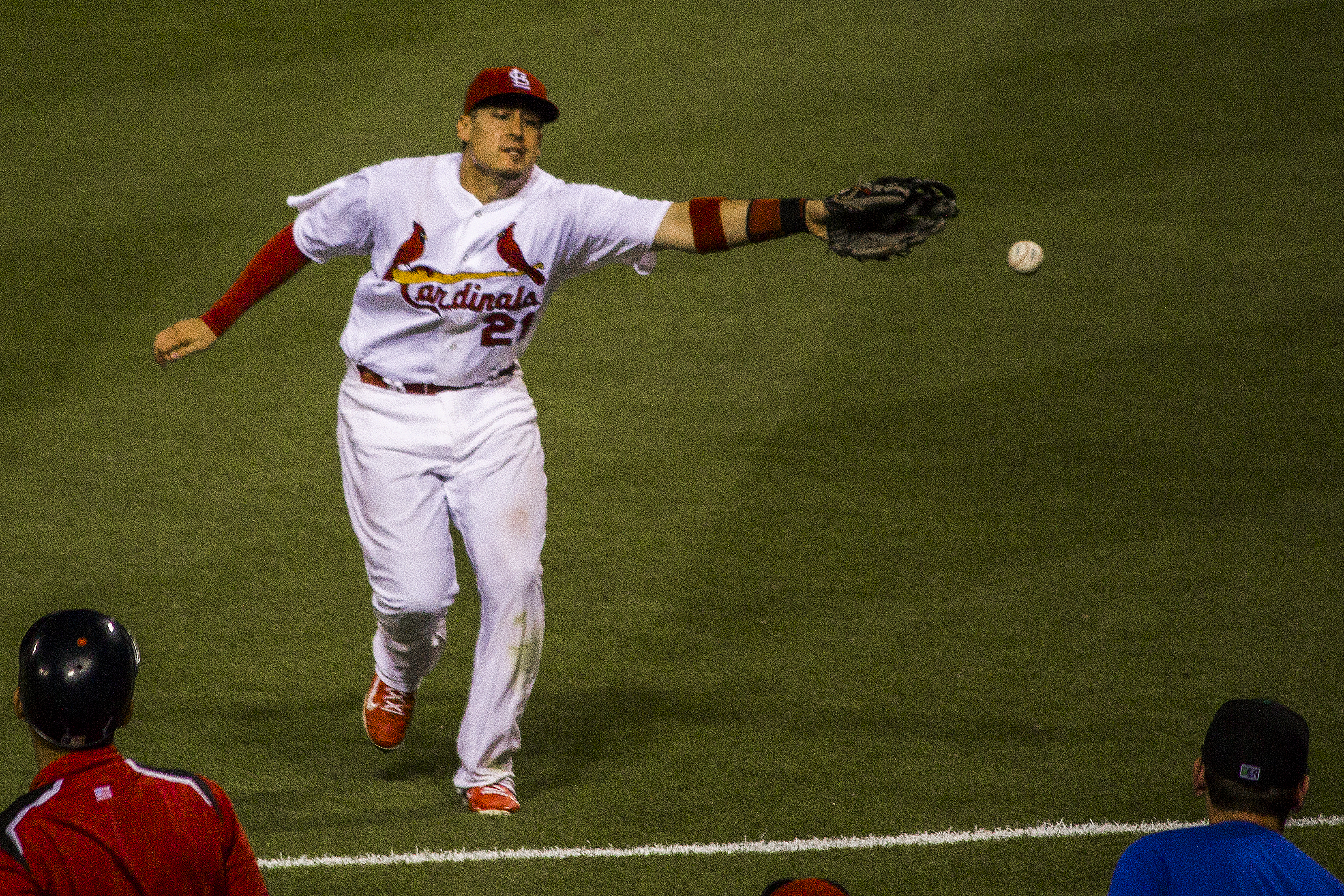 Allen Craig of the stlouis Cardinals 2014